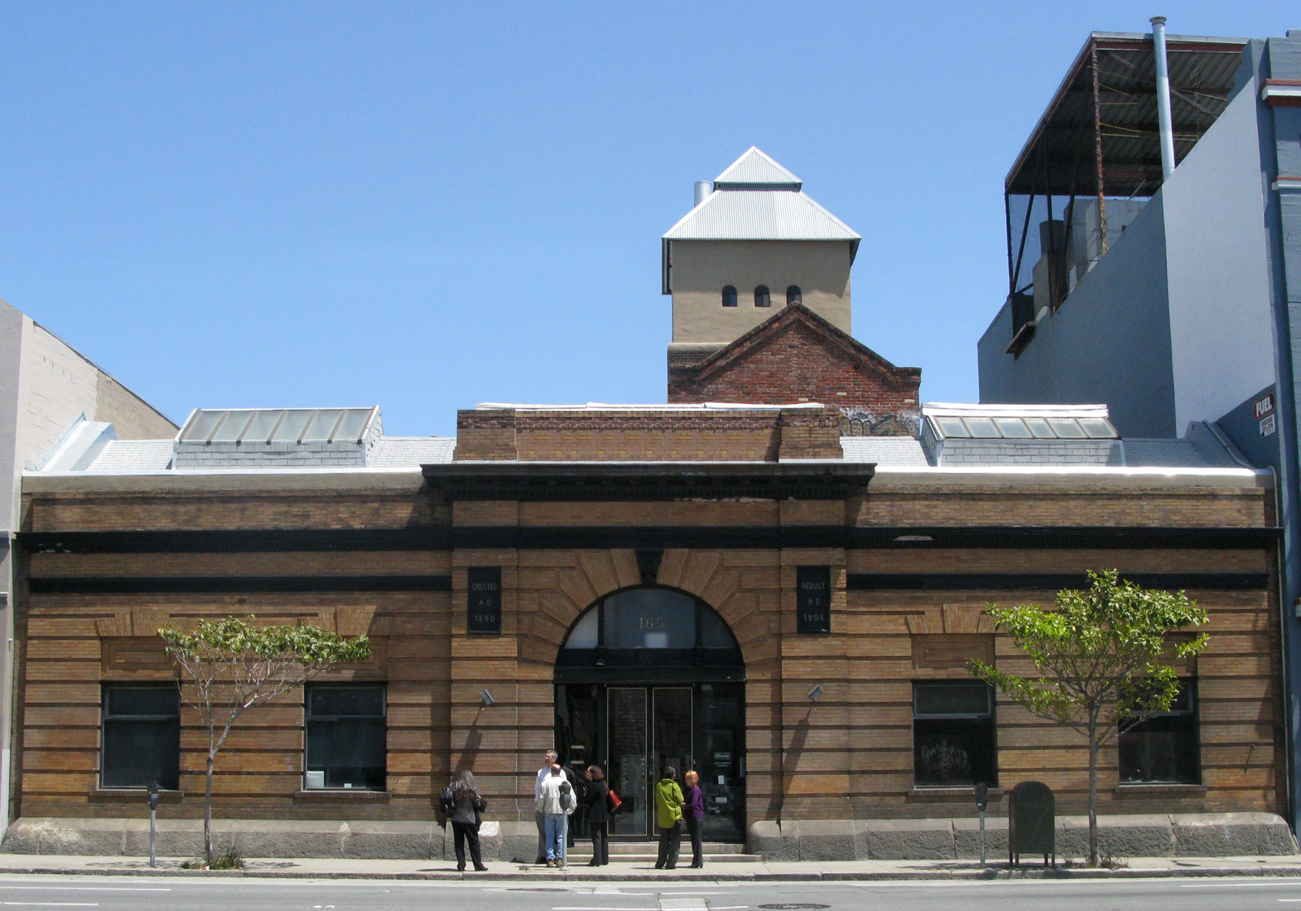 2008 photograph of the historic James Lick Baths building, as seen from 10th Street in San Francisco, CA.